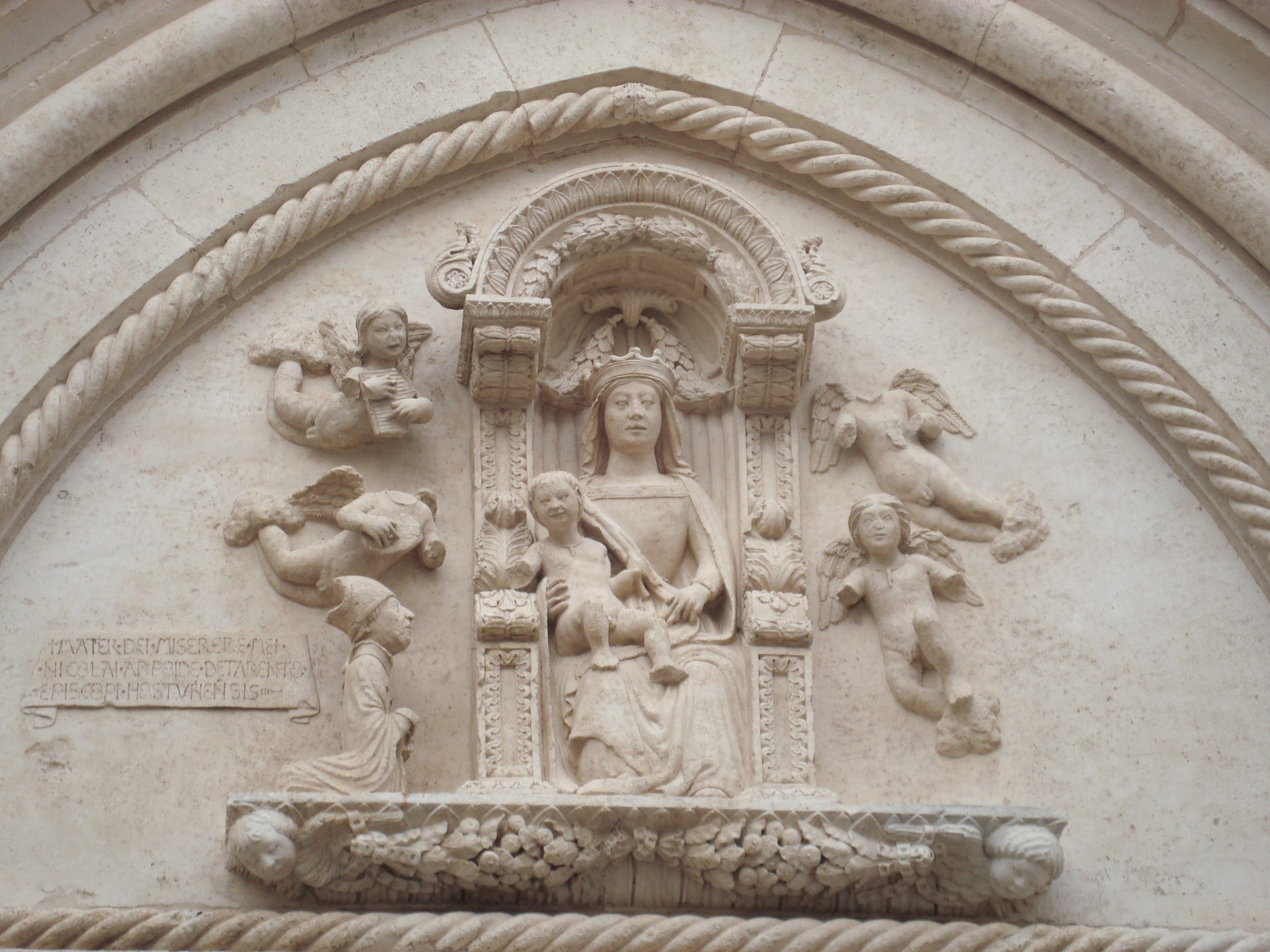 Detail of the facade of the Ostuni cathedral